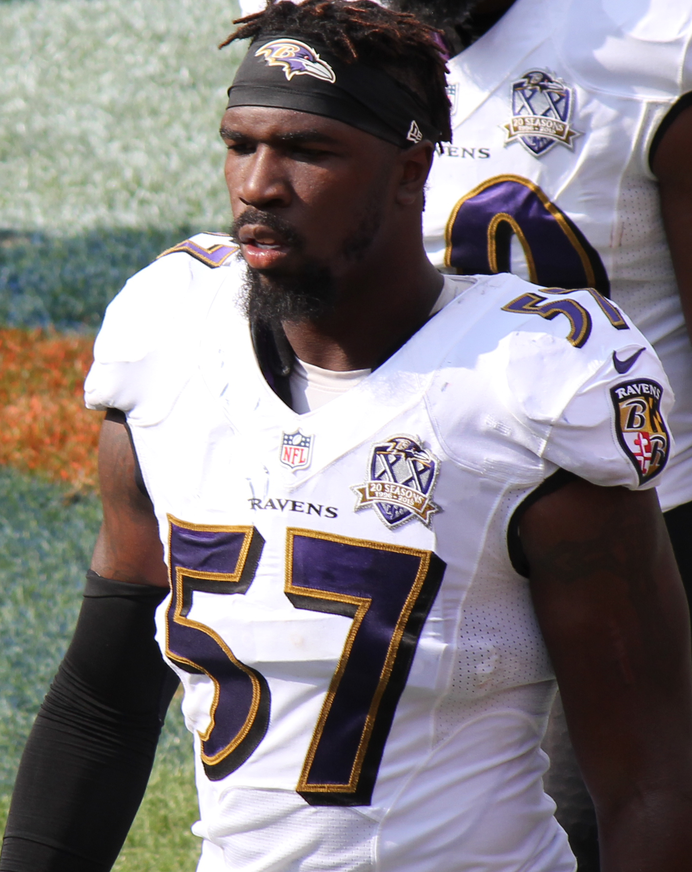 C. J. Mosley, a player on the National Football League.